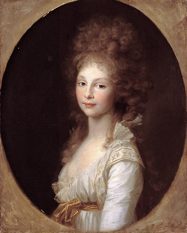 Depicted person: Frederica of Mecklenburg-Strelitz